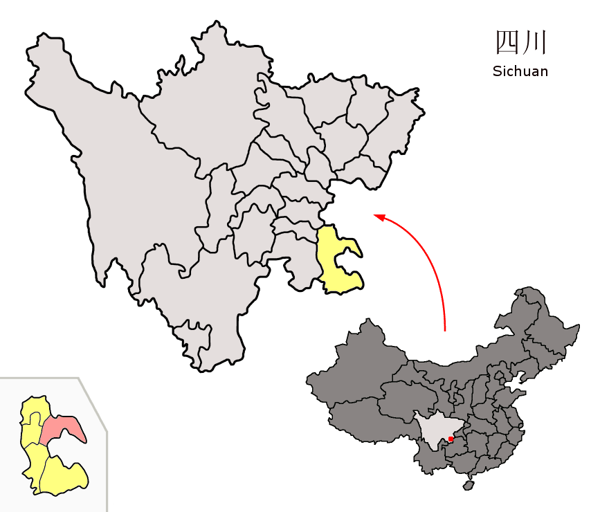 Location of Hejiang County (pink) and Luzhou Prefecture (yellow) within Sichuan province of China Map drawn in october 2007 using various sources, mainly : Sichuan province administrative regions GIS data: 1:1M, County level, 1990 Sichuan Counties map from